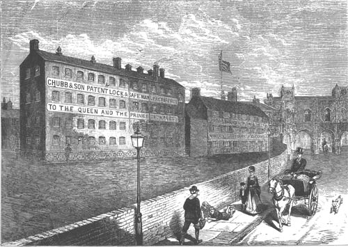 Etching of the Chubb Lockmaker's building in Woverhampton